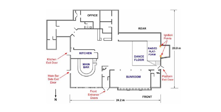 Floor plan of the Station nightclub showing origin of fire and available exits.